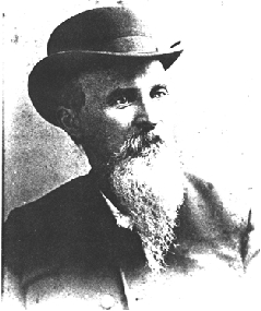 Portrait of photographer Alfred Shea Addis, c. 1880